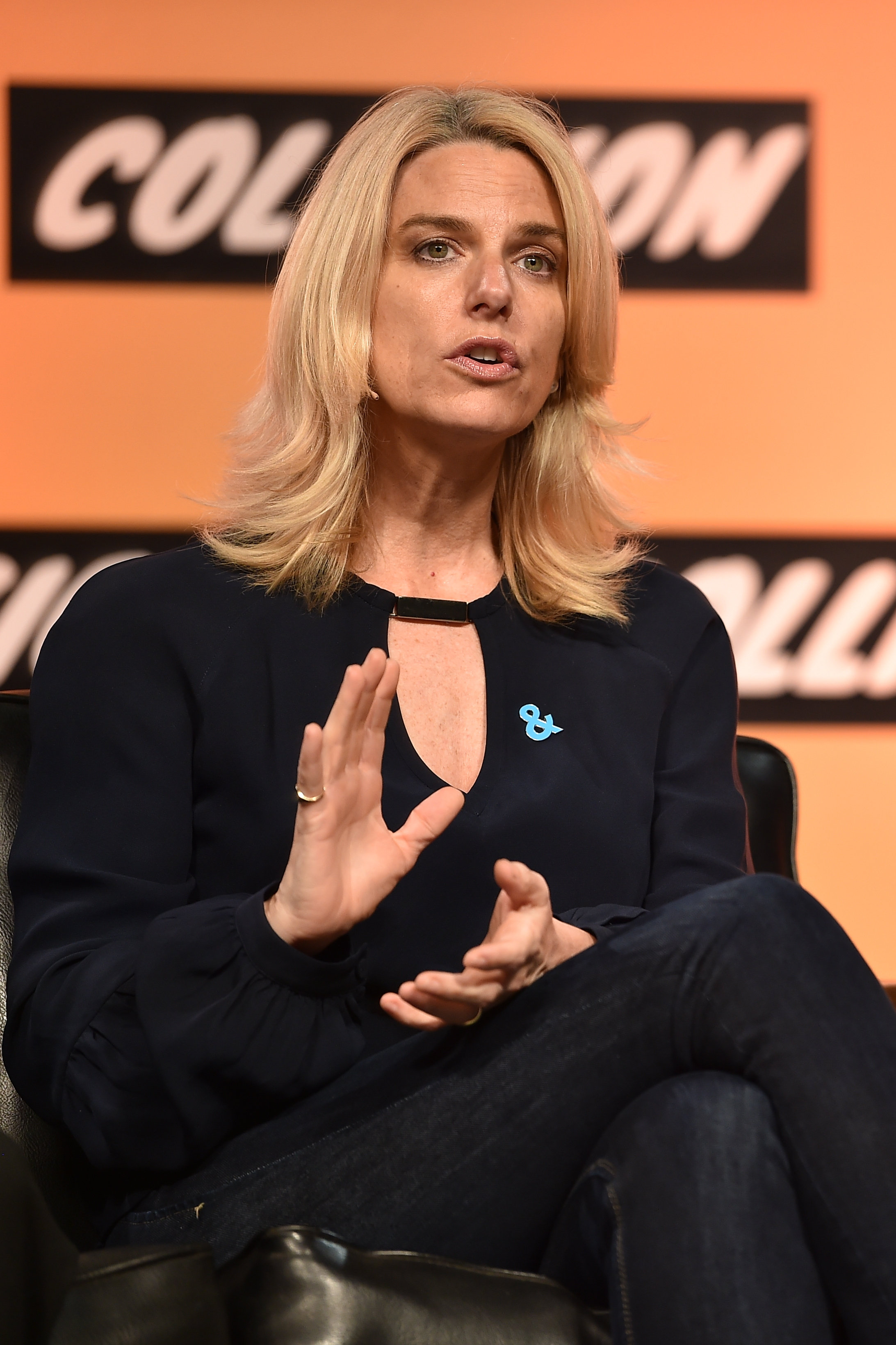 2 May 2017; Sarah Kate Ellis, GLAAD, at the Centre Stage during Collision 2017 in New Orleans, Louisiana. Photo by Diarmuid Greene / Collision / Sportsfile